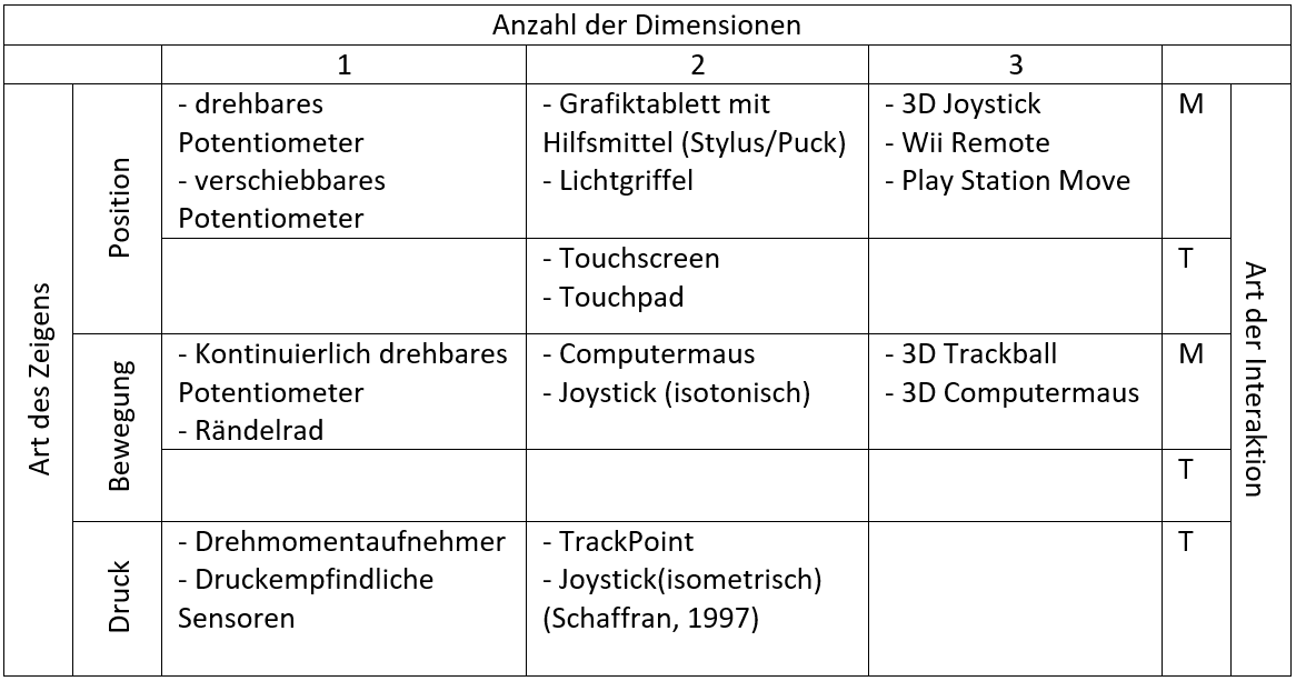 Buxtons Taxonomy